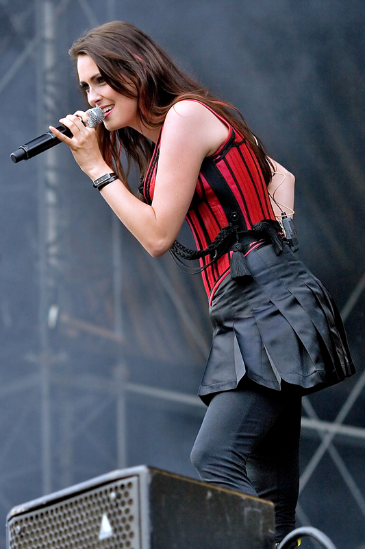 Picture of Sharon Den Adel (singer of Within Temptation) taken in Arras (France) as Within Temptation was opening for Metallica